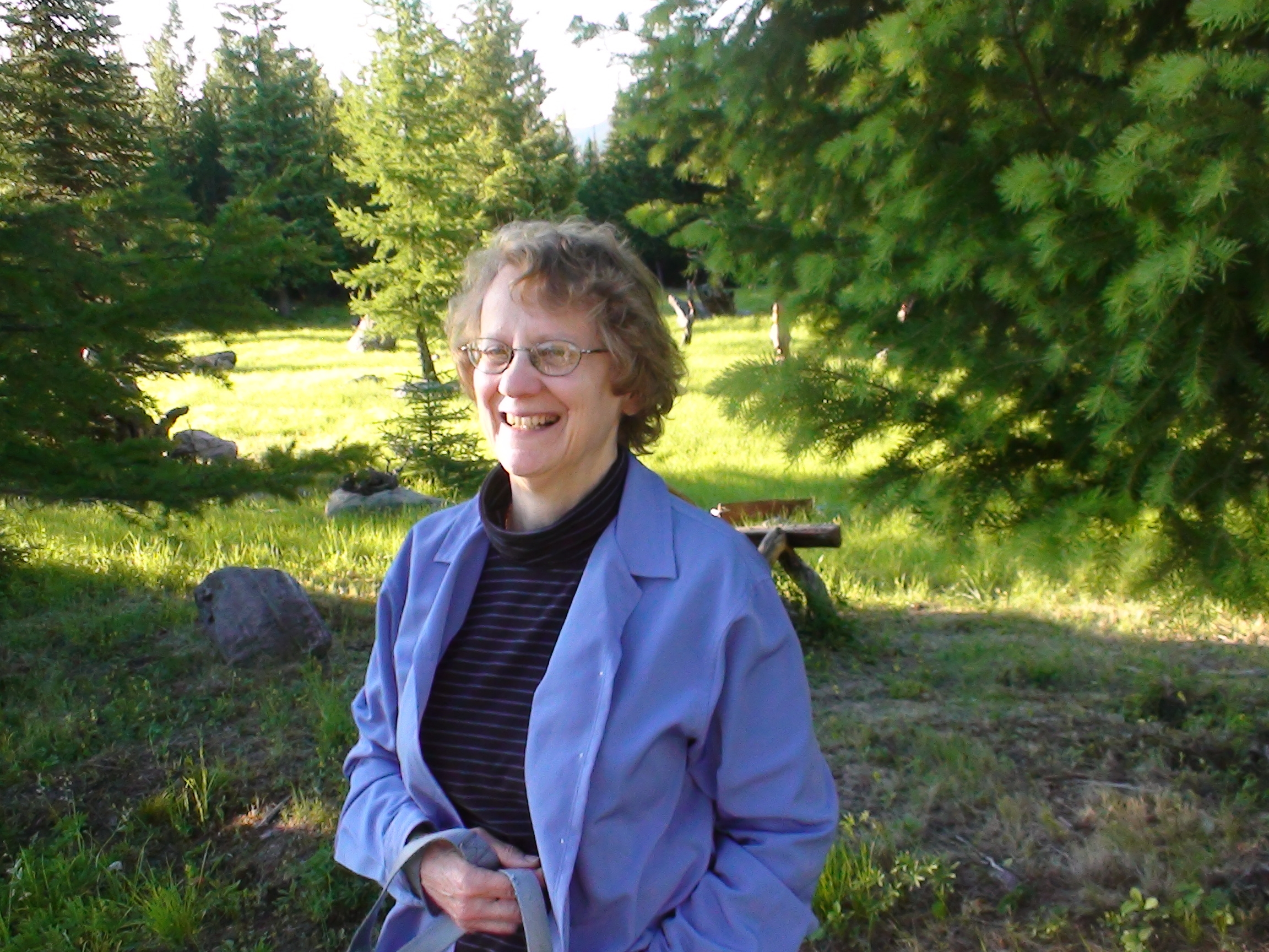 Sarah (Sally) Thomason in Montana